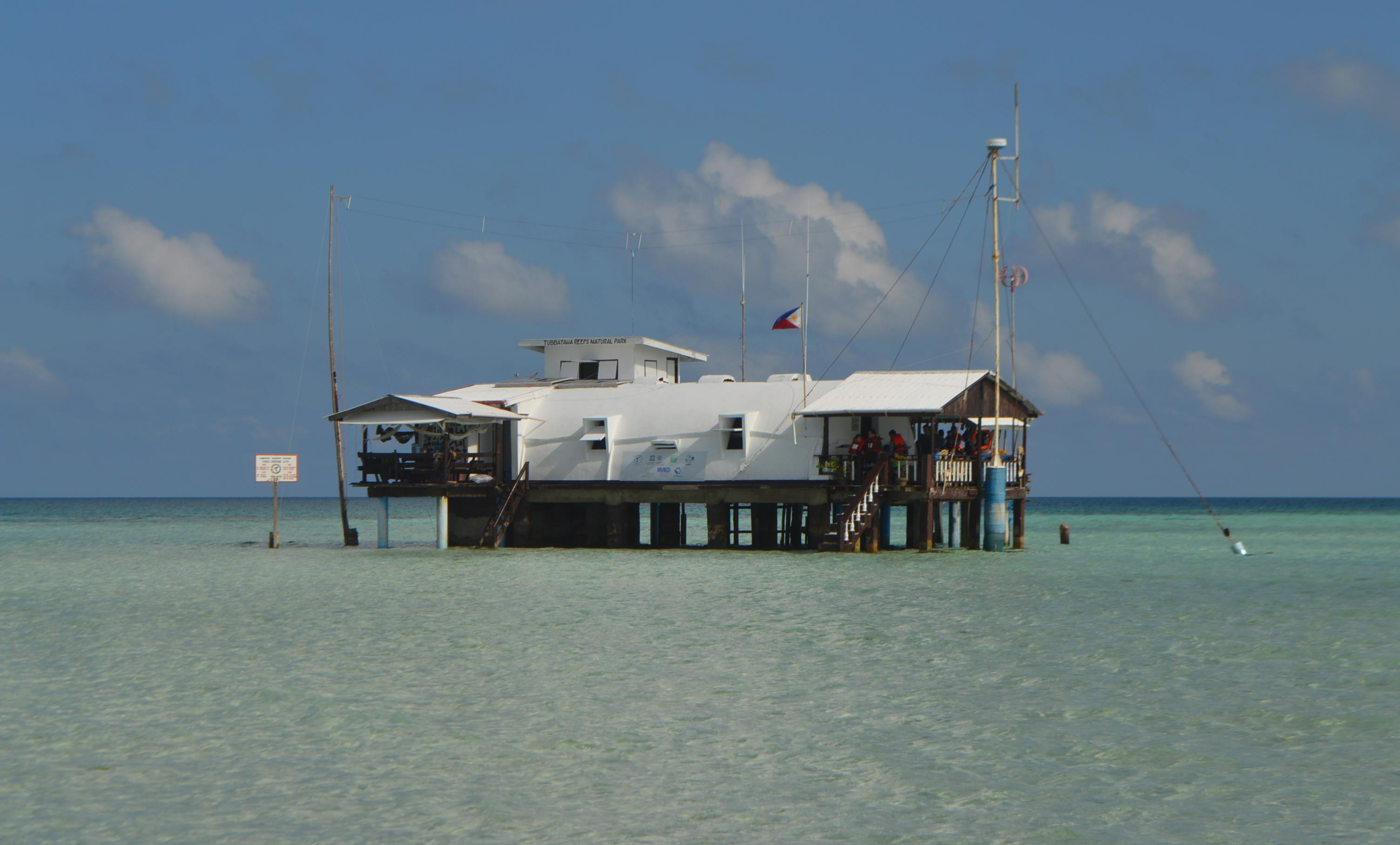 This is a home of about 10 combined men from TMO, PCG, PN and the local government of Cagayancillo--the park rangers, the ones who protect the marine park for two months.